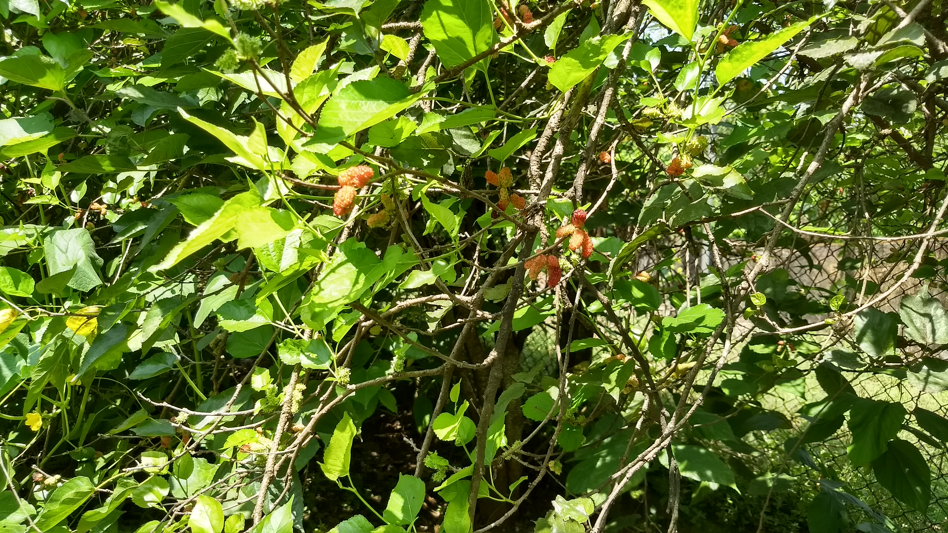 Picture of a Morus indica plant with berries nearing maturity.